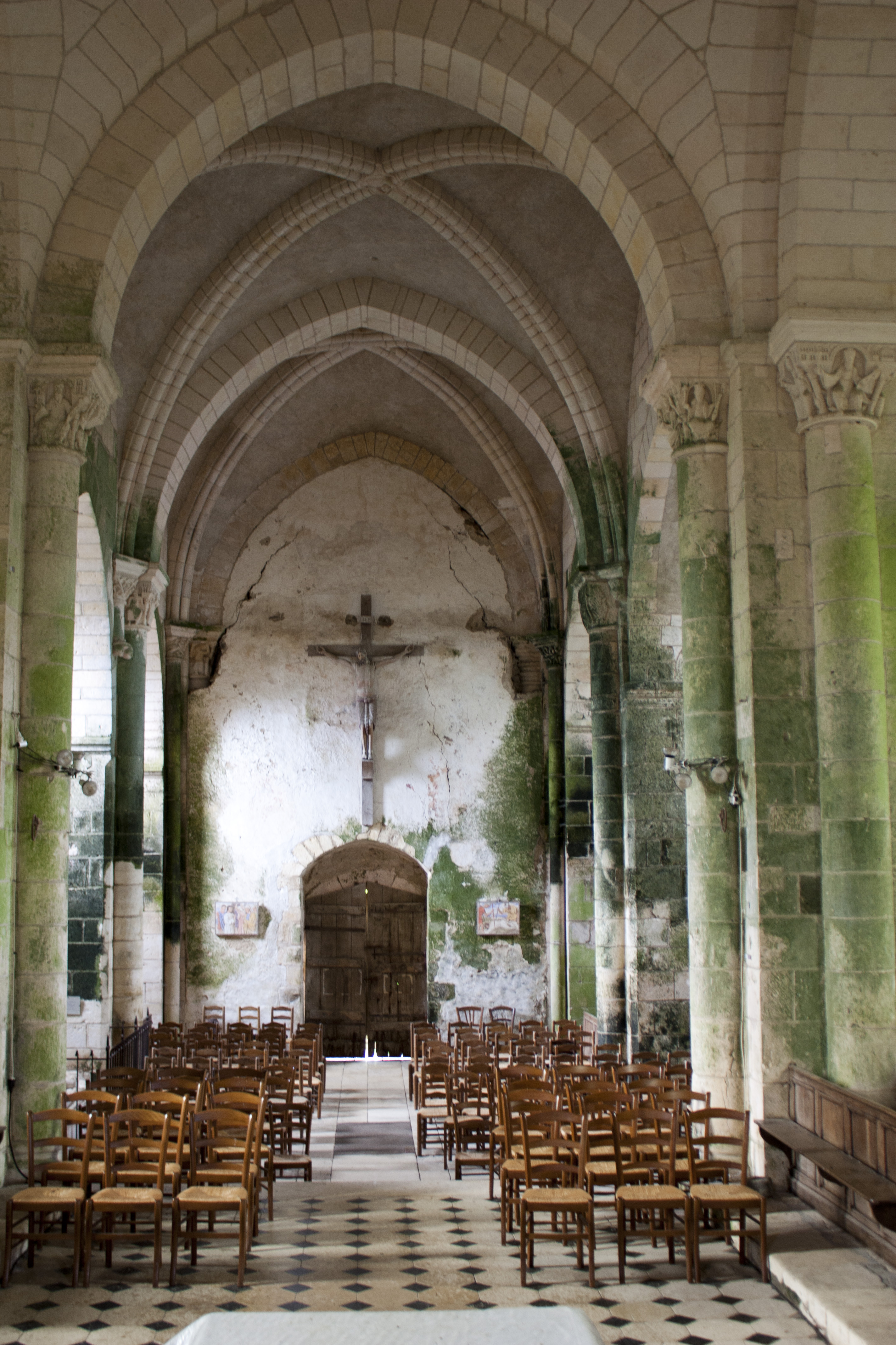 The nave seen from the choir.